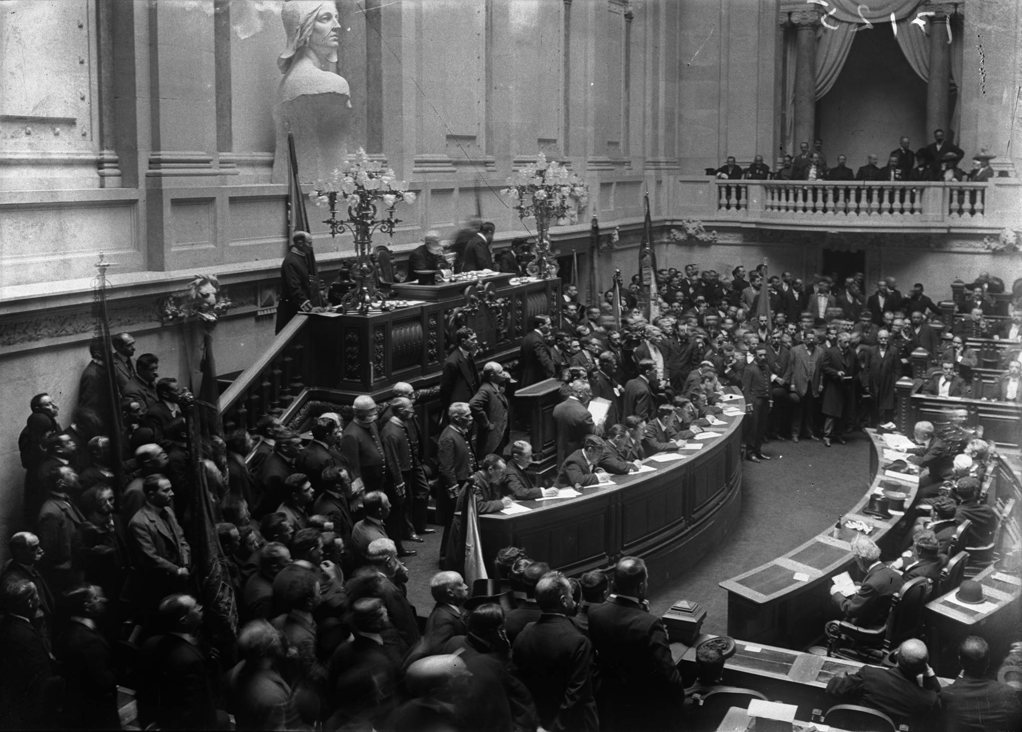 The National Constituent Assembly of 1911 (Assembleia Nacional Constituinte de 1911) that drew up the first Republican Constitution in Portugal.